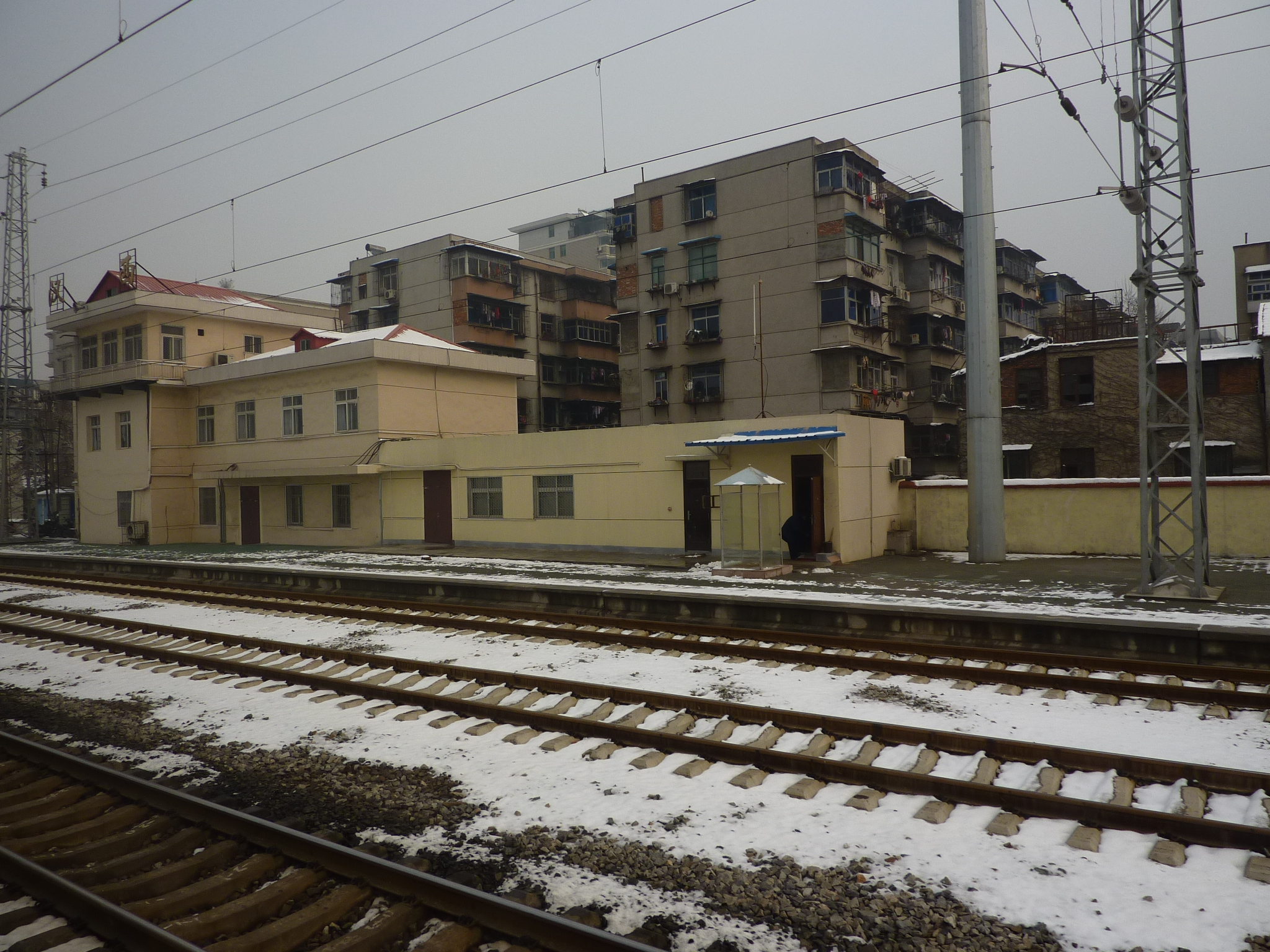 Hanxi Railway Station is a minor station on the the Beijing-Guangzhou (conventional) railway in Hankou (between the Hanshui rail bridge and the Hankou Station). There is no passenger service here, as far as a I know.